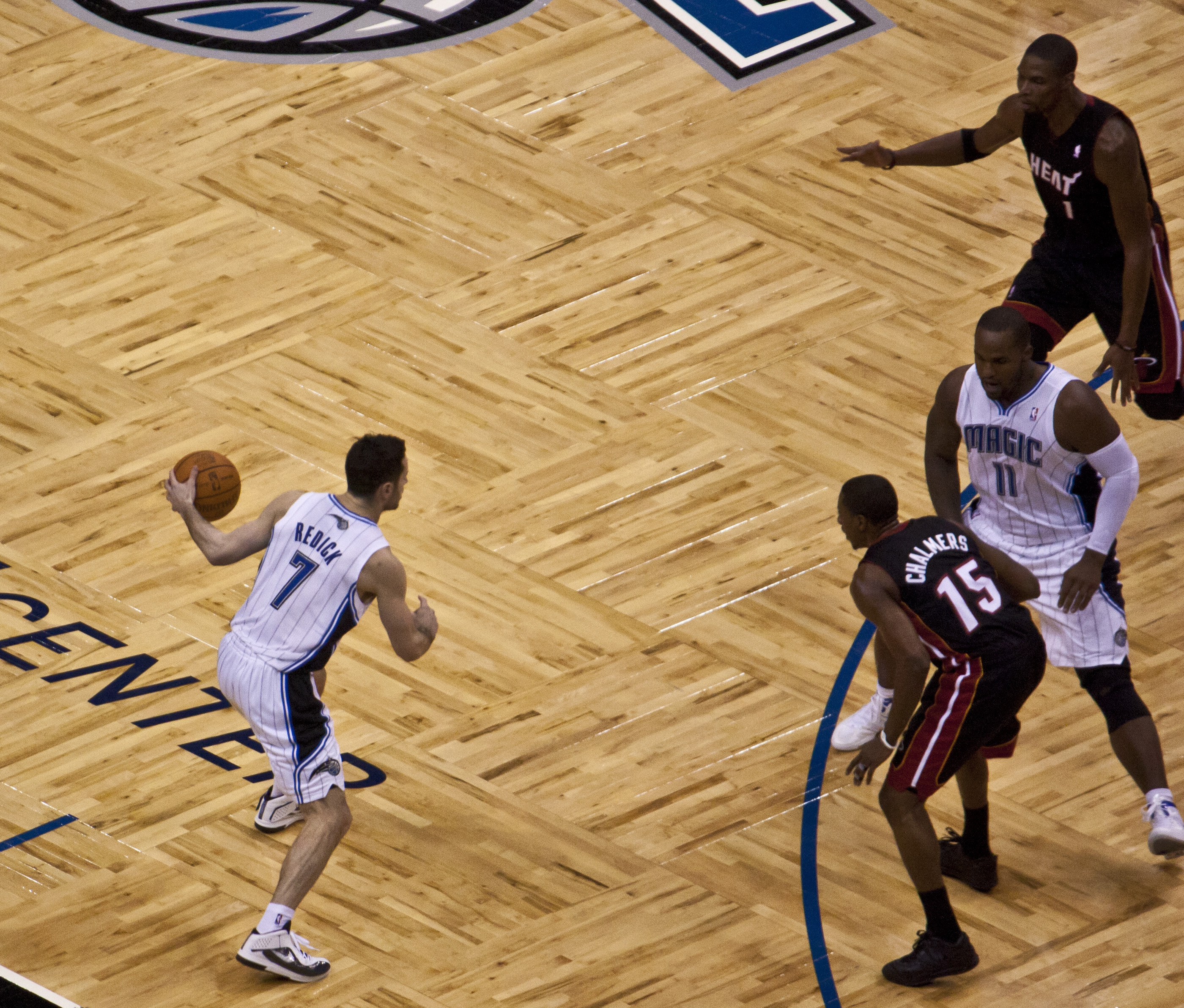 Glen "Big Baby" Davis (11) sets a pick on Mario Chalmers for J.J. Redick. Chris Bosh comes over to help.